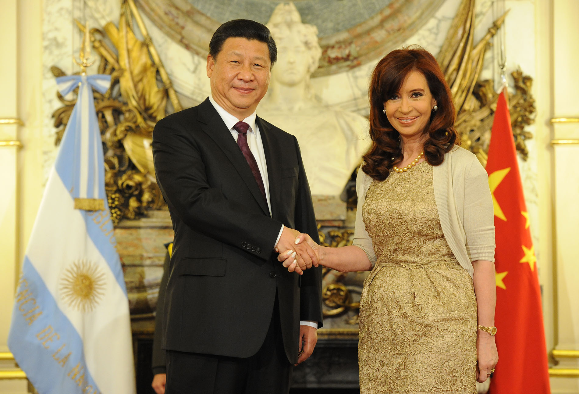 Cristina Fernández and Xi Jinping in Argentina. Xi first time in that country.